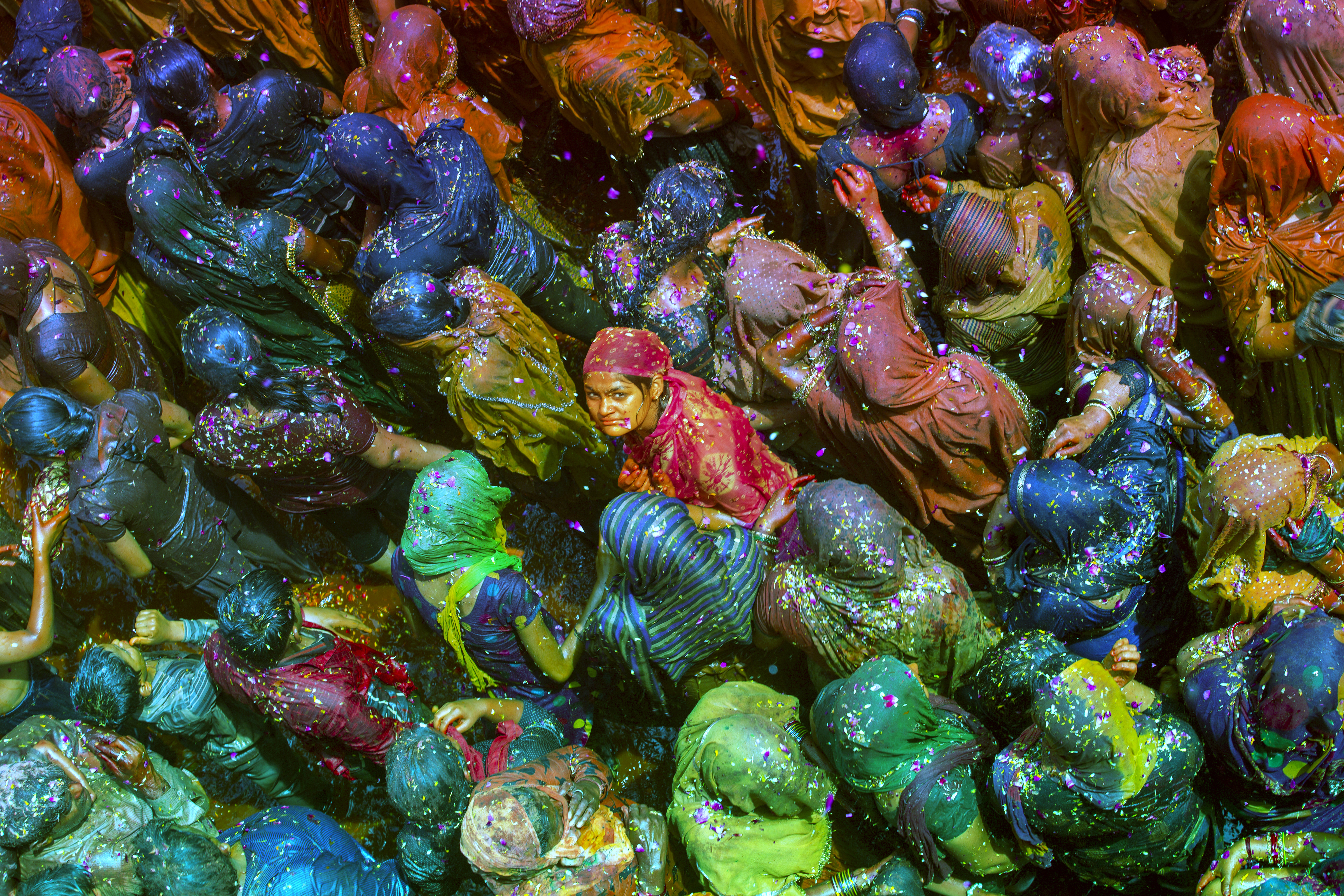 Holi Celebration in mathura, India